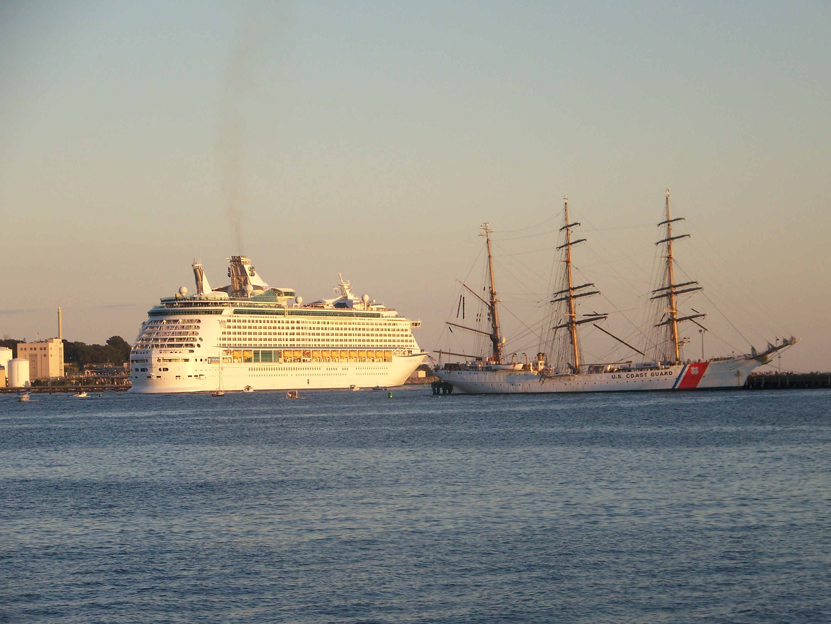 Royal Caribbean Cruise Ship and the Eagle